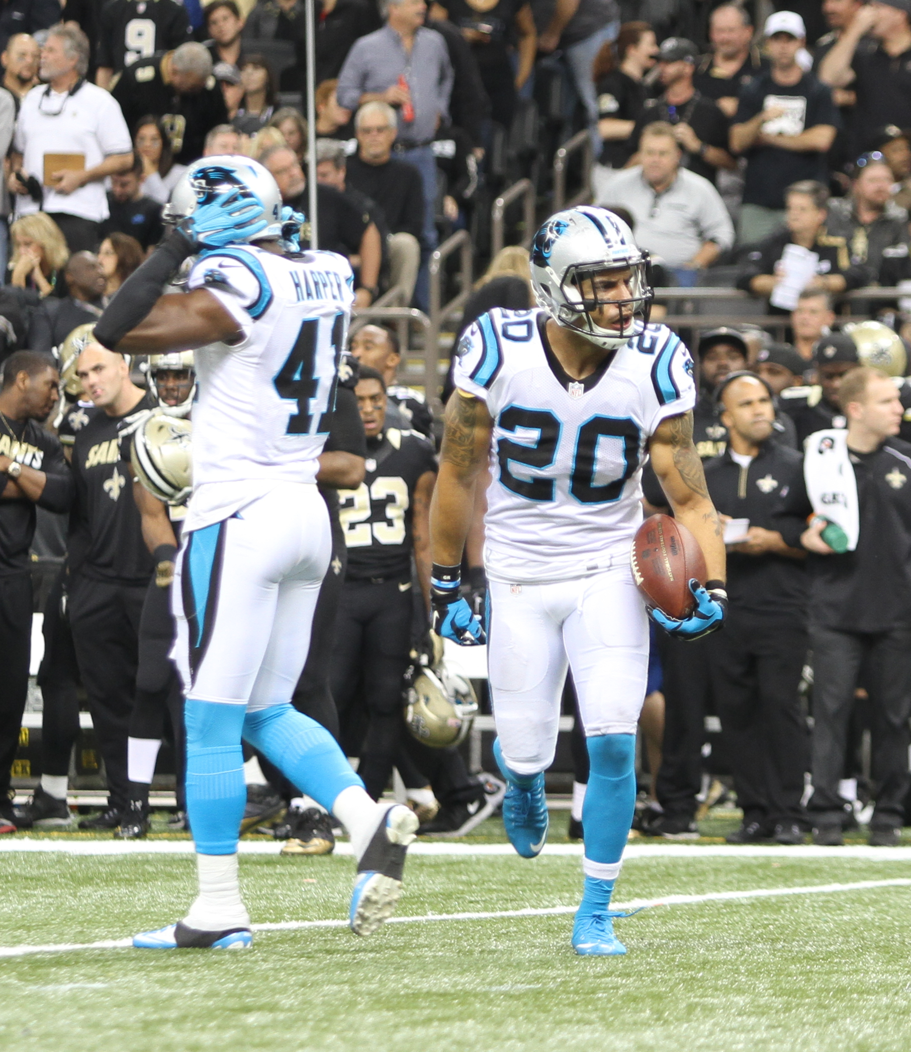 New Orleans Saints vs Carolina Panthers, December 6, 2015, Tammy Anthony Baker, Photographer